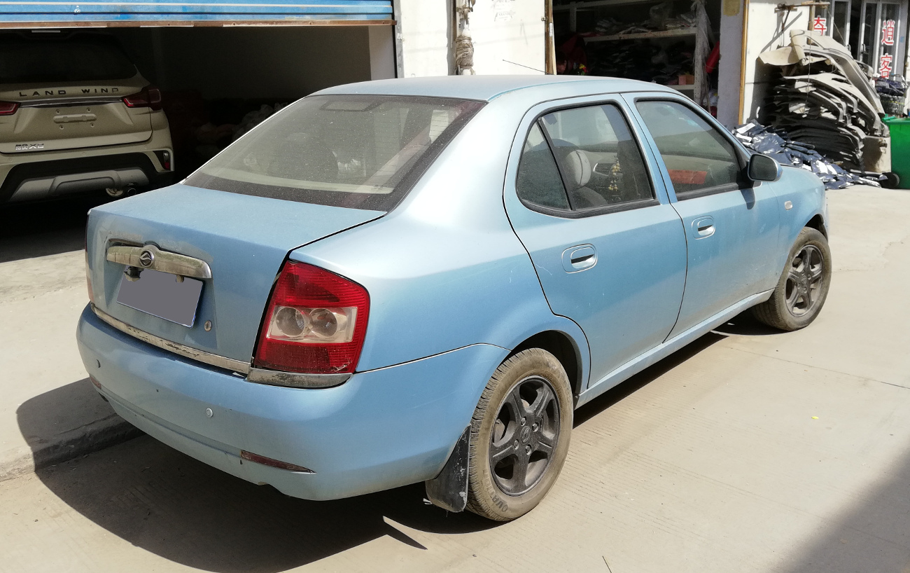 Landwind Forward photographed in Zhengzhou, Henan province, China.